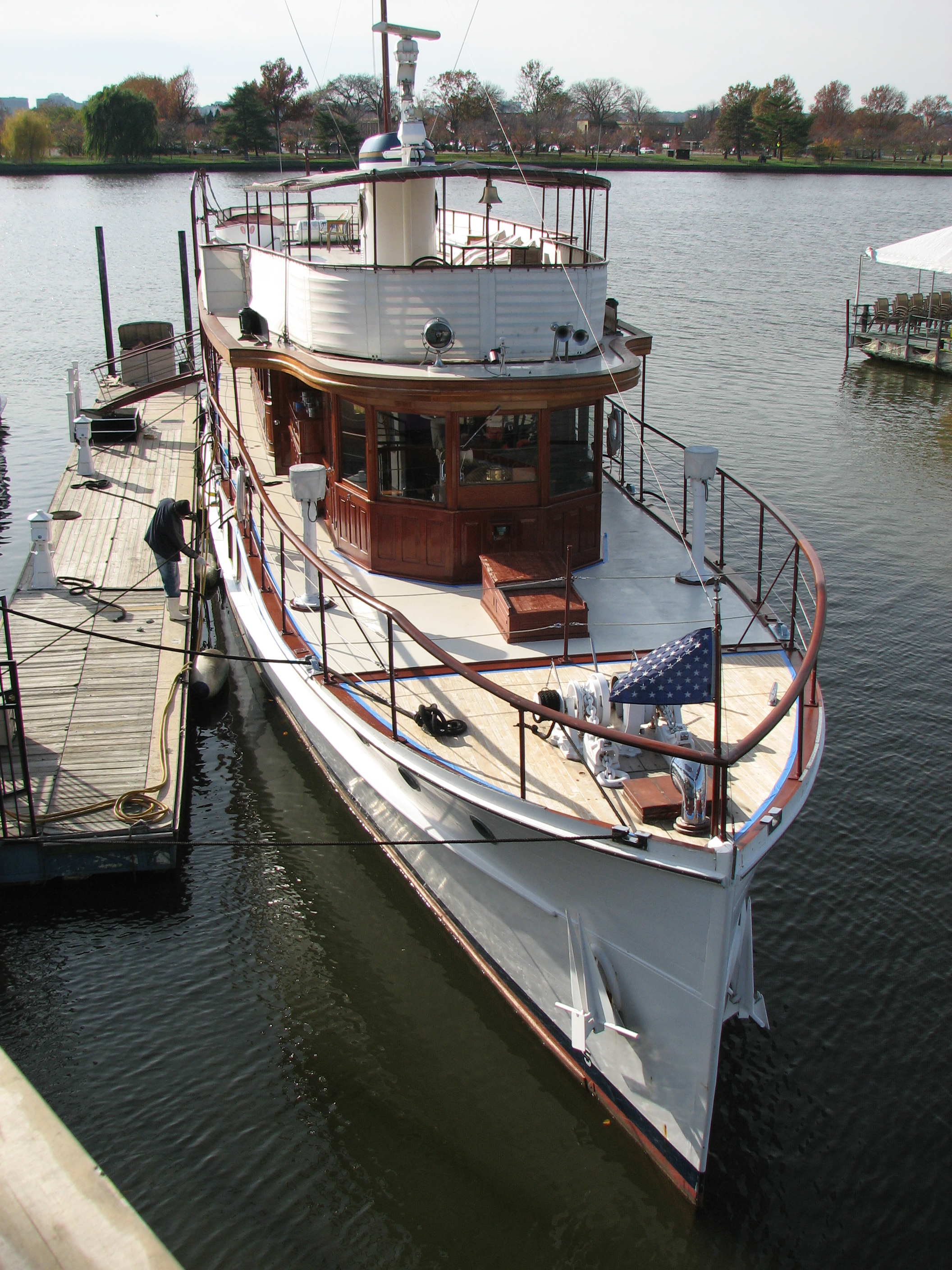 USS Sequoia